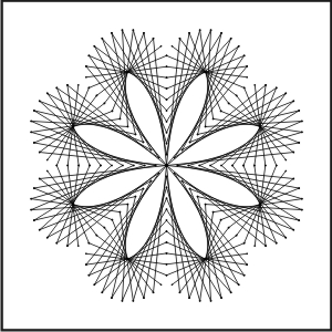 Stringart: Flower patten loop sewingRomână: Grafică brodată: Model de floare cu cusăutură buclă